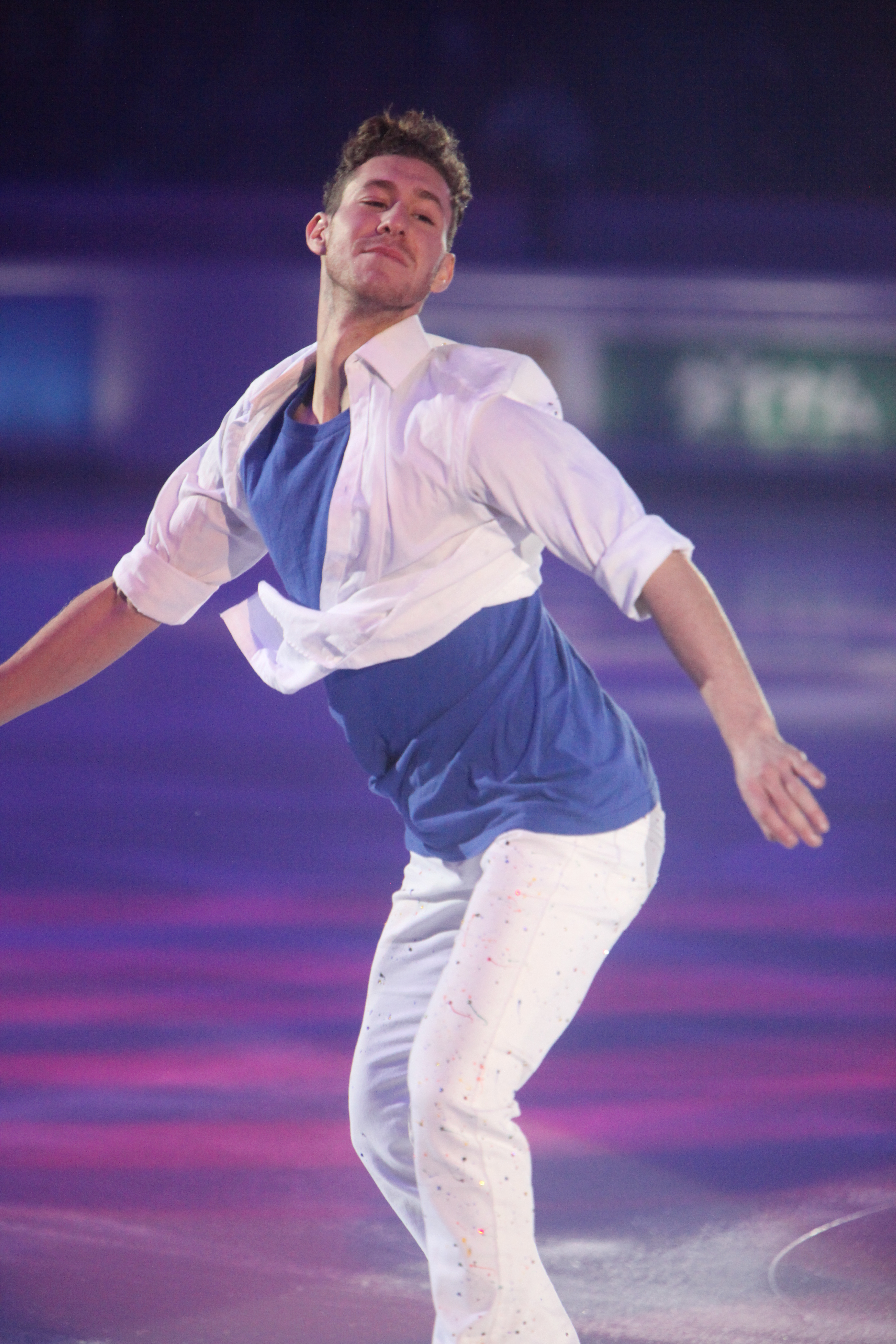 Dmitri Aliev during the gala at the Internationaux de France de Patinage 2018.